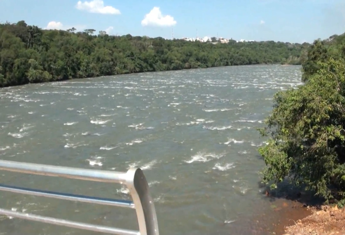 Acaray River that borders Ciudad del Este and Hernandarias, Paraguay